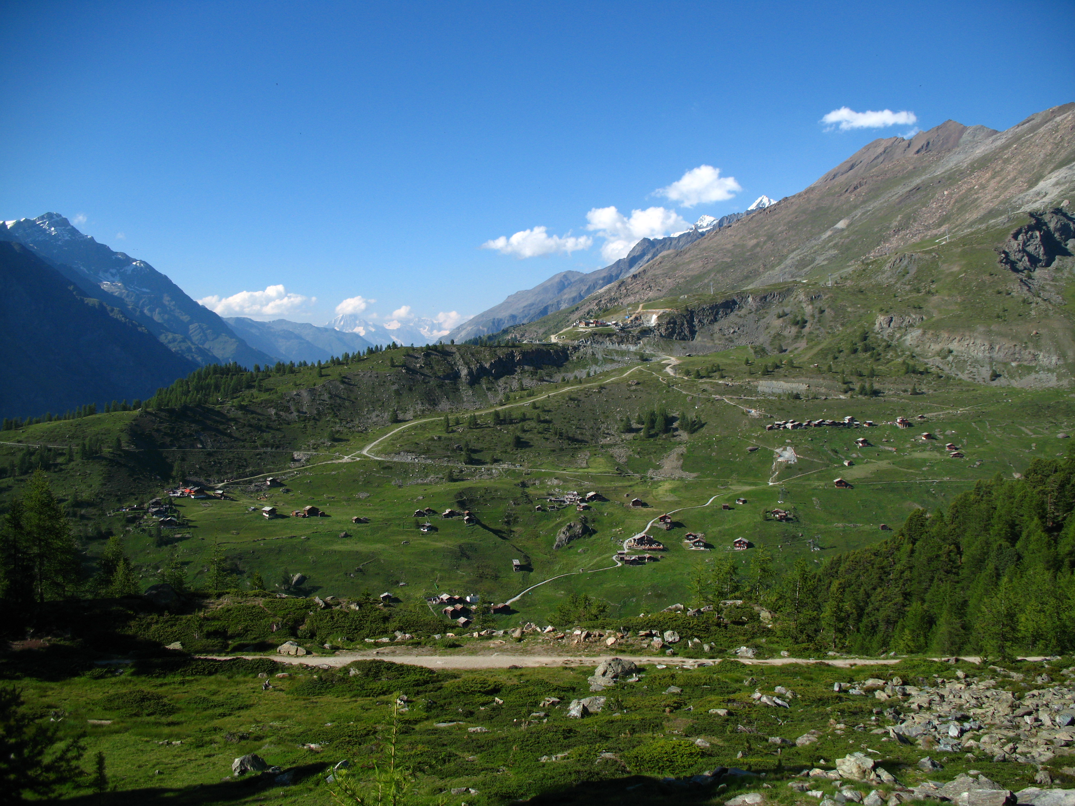 Sunnegga and Findeln, Switzerland